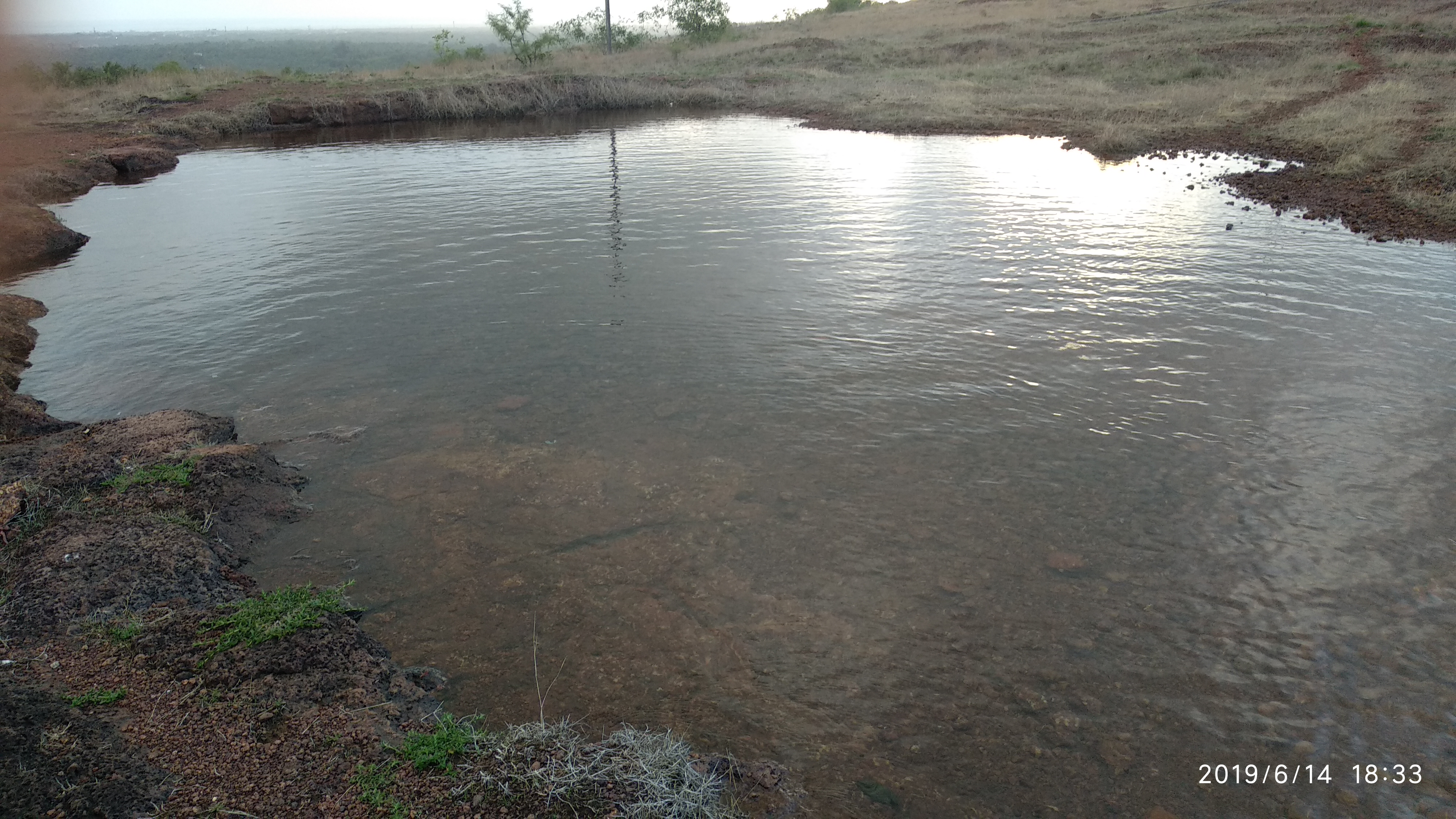 Pallam is a water source. It is a good source of drinking water to the wild life.